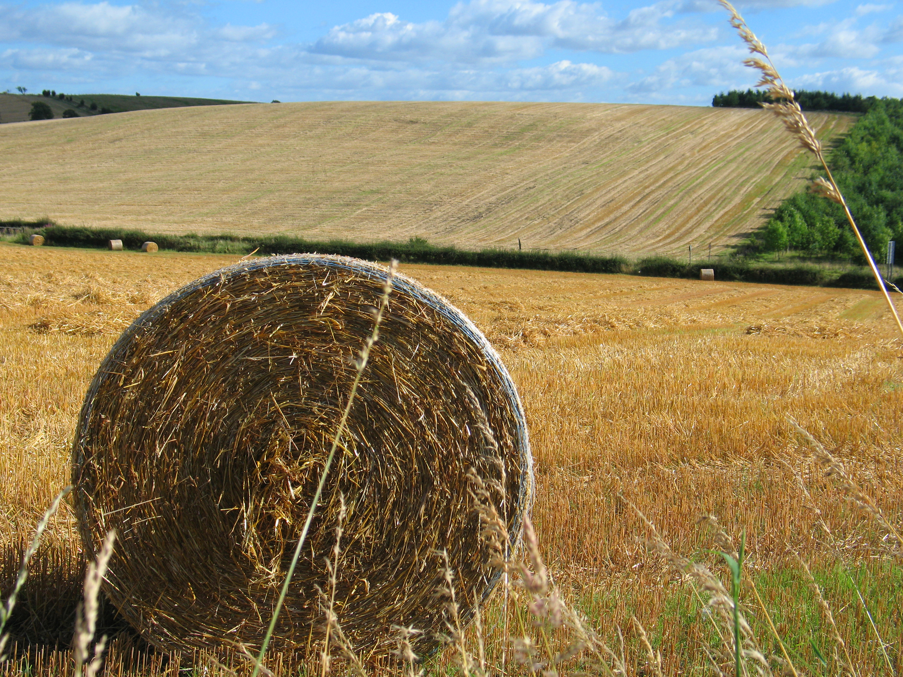 A picture of the countryside surrounding Robroyston, in September 2007